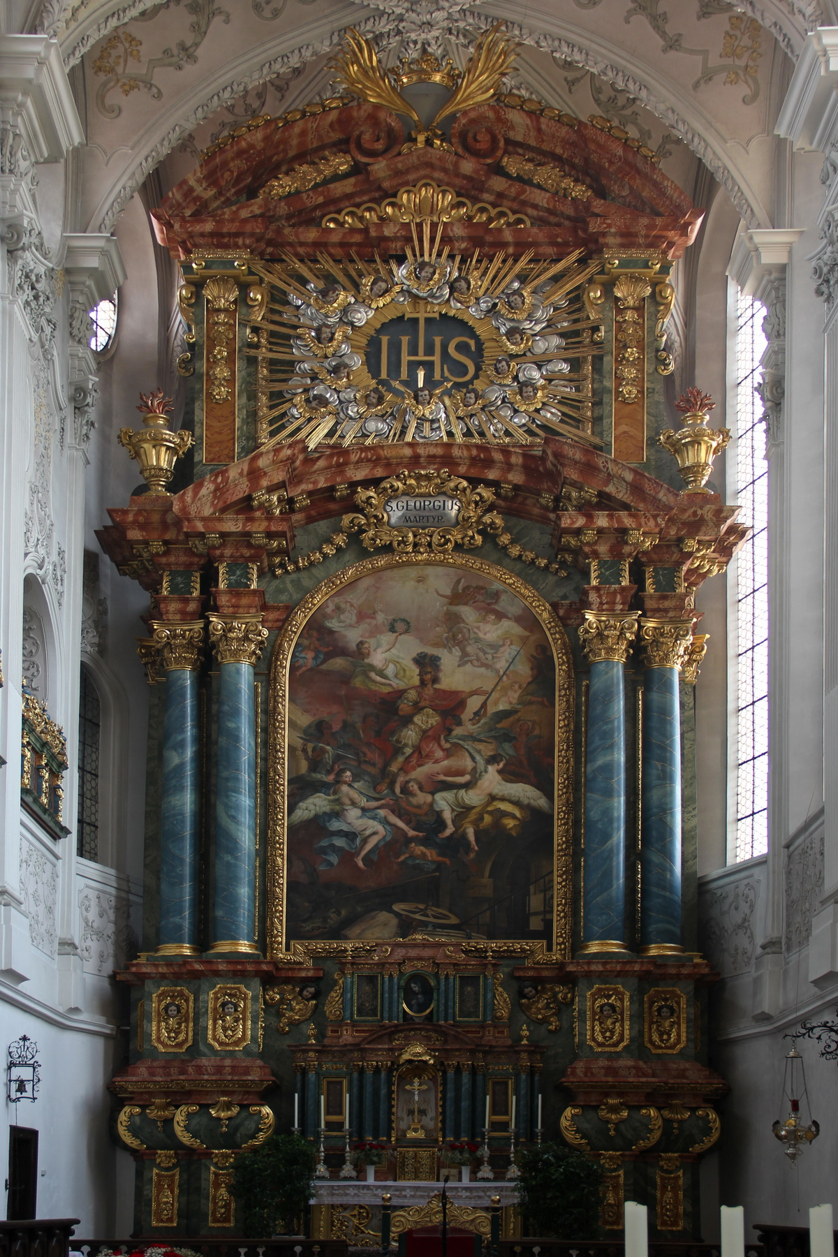 The main altar Church of St. George, Amberg Native nameSt. Georgkirche, AmbergLocationAmberg, GermanyCoordinates49° 26′ 38.12″ N, 11° 51′ 00.36″ E